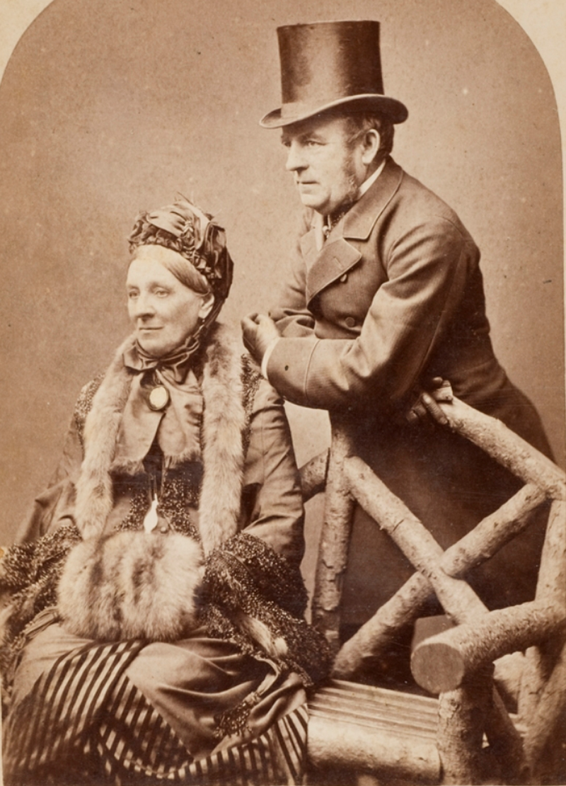 Mr and Mrs Henry Moore, owners of Strickland House, Sydney circa 1880